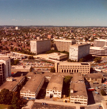 Built as a temporary facility in 1943, Building 20 (in the foreground)survived until 1998 and housed research activities in a wide variety of fields. At center of photo is Polaroid Corporation headquarters in 549 Technology Square, surrounded by three 9-story office buildings. Draper Laboratory is visible at center right edge of photo.